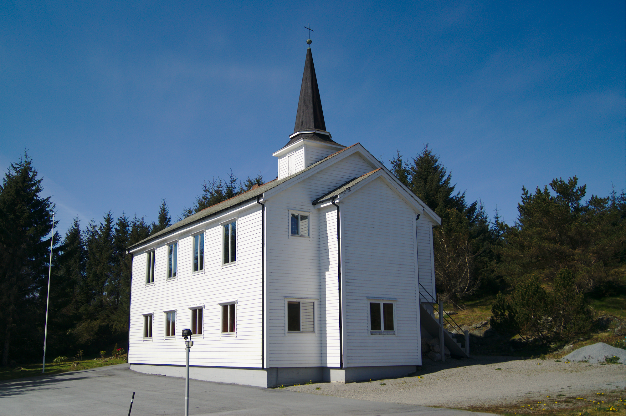 Værlandet Chapel is a chapel in Askvoll Municipality in Sogn og Fjordane county, Norway. It is located on the island of Værlandet. From 1960.